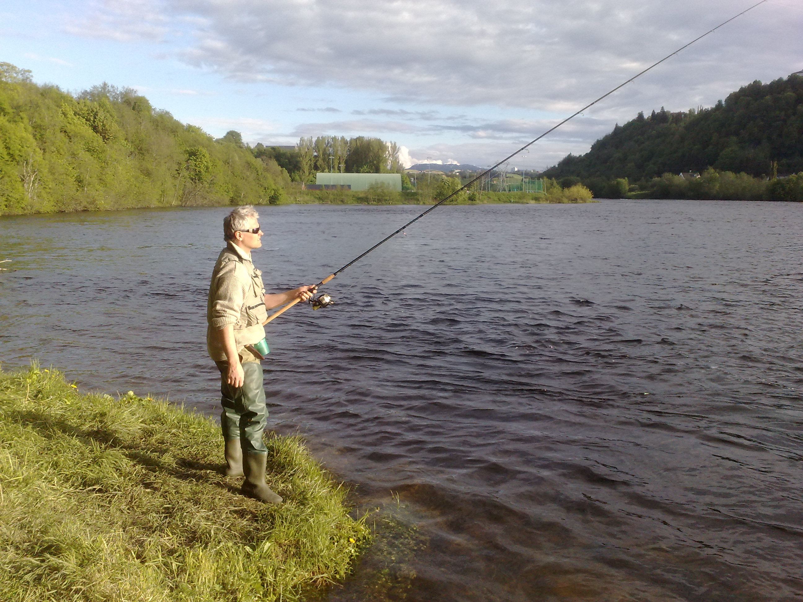 Salmon fishing in Nidelva (Trondheim) Norway. Vald 8, Fossumhølen